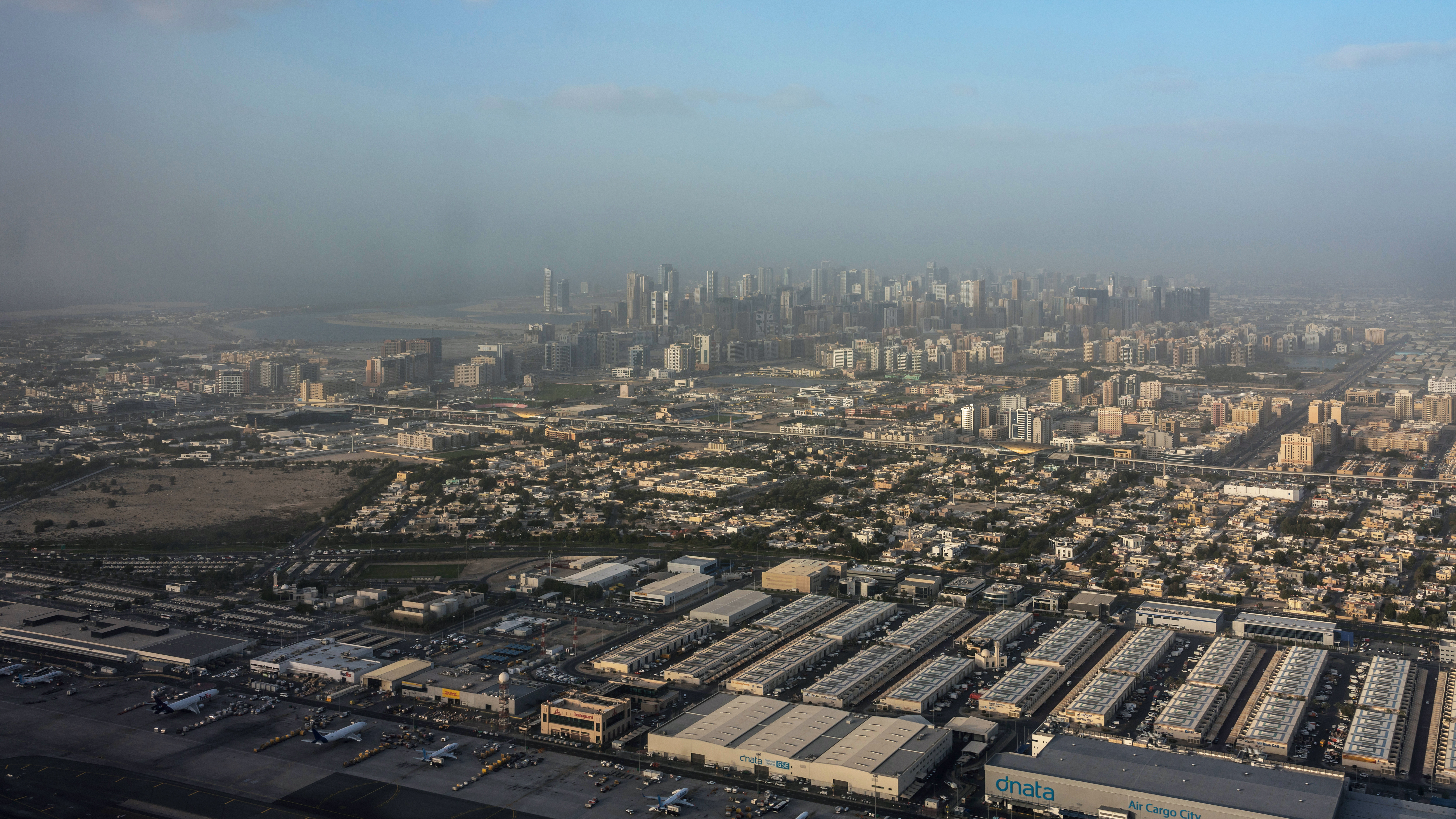 Aerial view (from airplane) to the north of the airport in Dubai / United Arab Emirates. In the background, Sharjah is also visible.